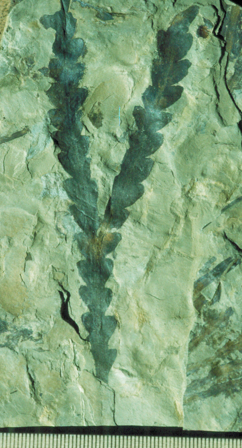 Leaf of extinct seed fern from Birds River South Africa Condon Collection F108304